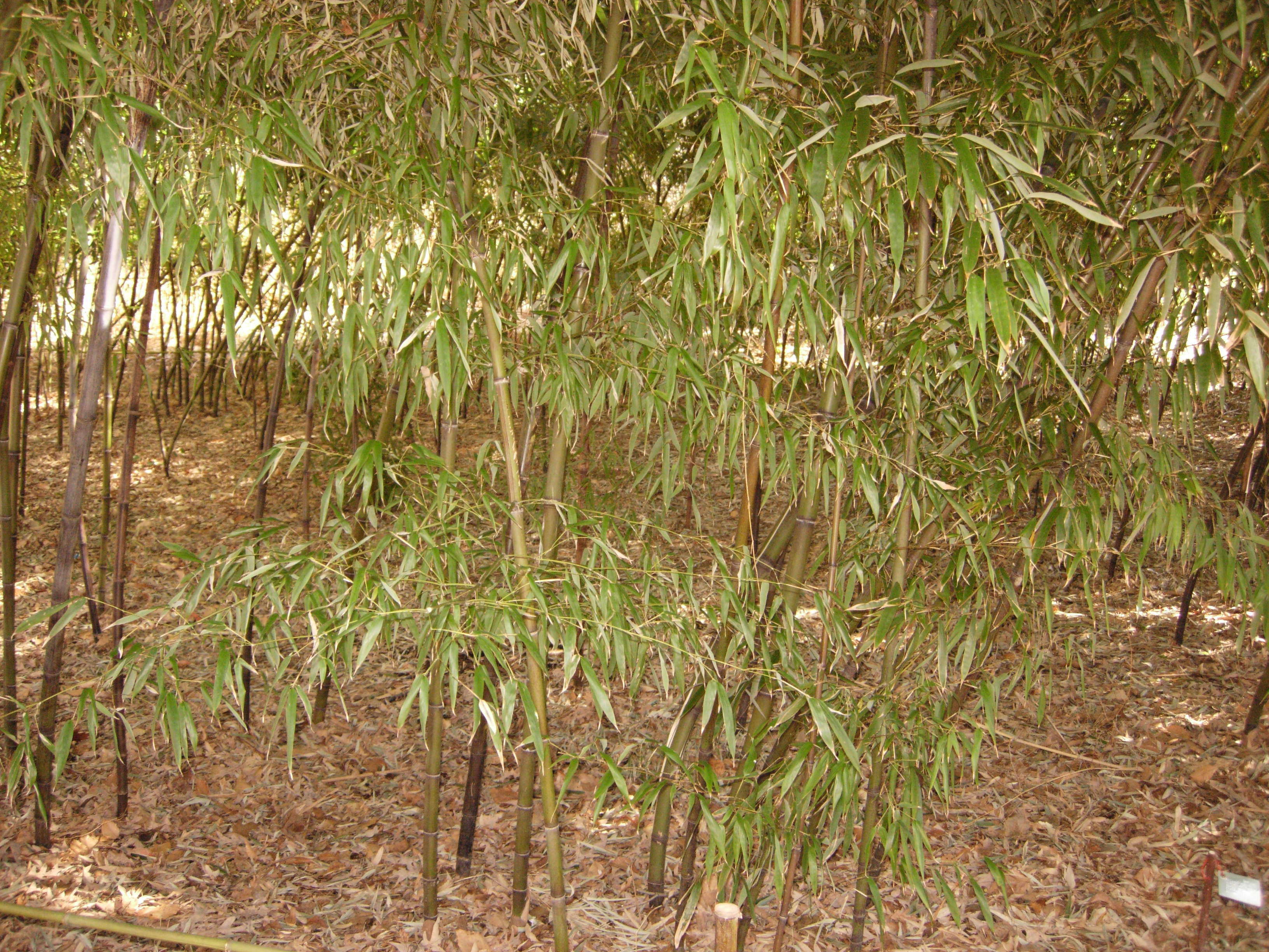 Small grouping of Phylostachys Nigra, 'Punctacta' varietal (Black Bamboo) at Cylburn Arboretum, Baltimore, MD.